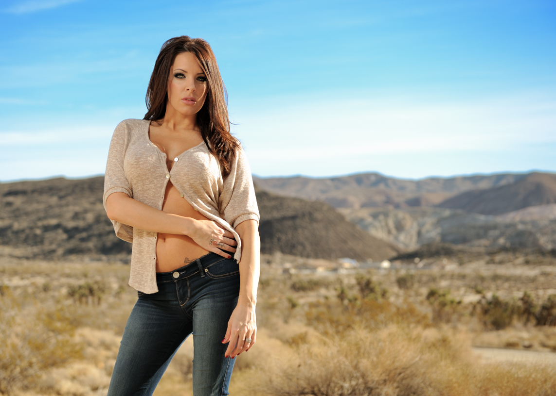 A female model wearing jeans standing in California desert scenery, Kern County. Photographed with a Nikon D700 with ND4 filter. Settings: 1/200 ƒ/4.5 70mm. Strobist Info: SB-900 and shoot-thru just out of frame, camera left at 1/2 power Triggered via Pocket Wizard